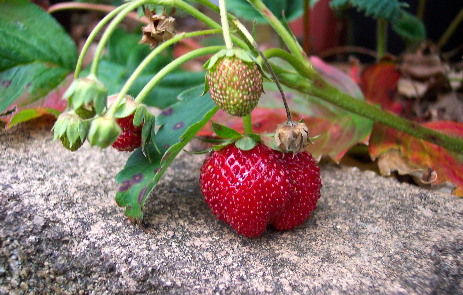 Close up of ripe and unripe strawberries Taken by Enoch Lau on 7 December 2004. As a courtesy, please let me know if you alter this image or this image description page. Original filename was 100_3821.JPG.